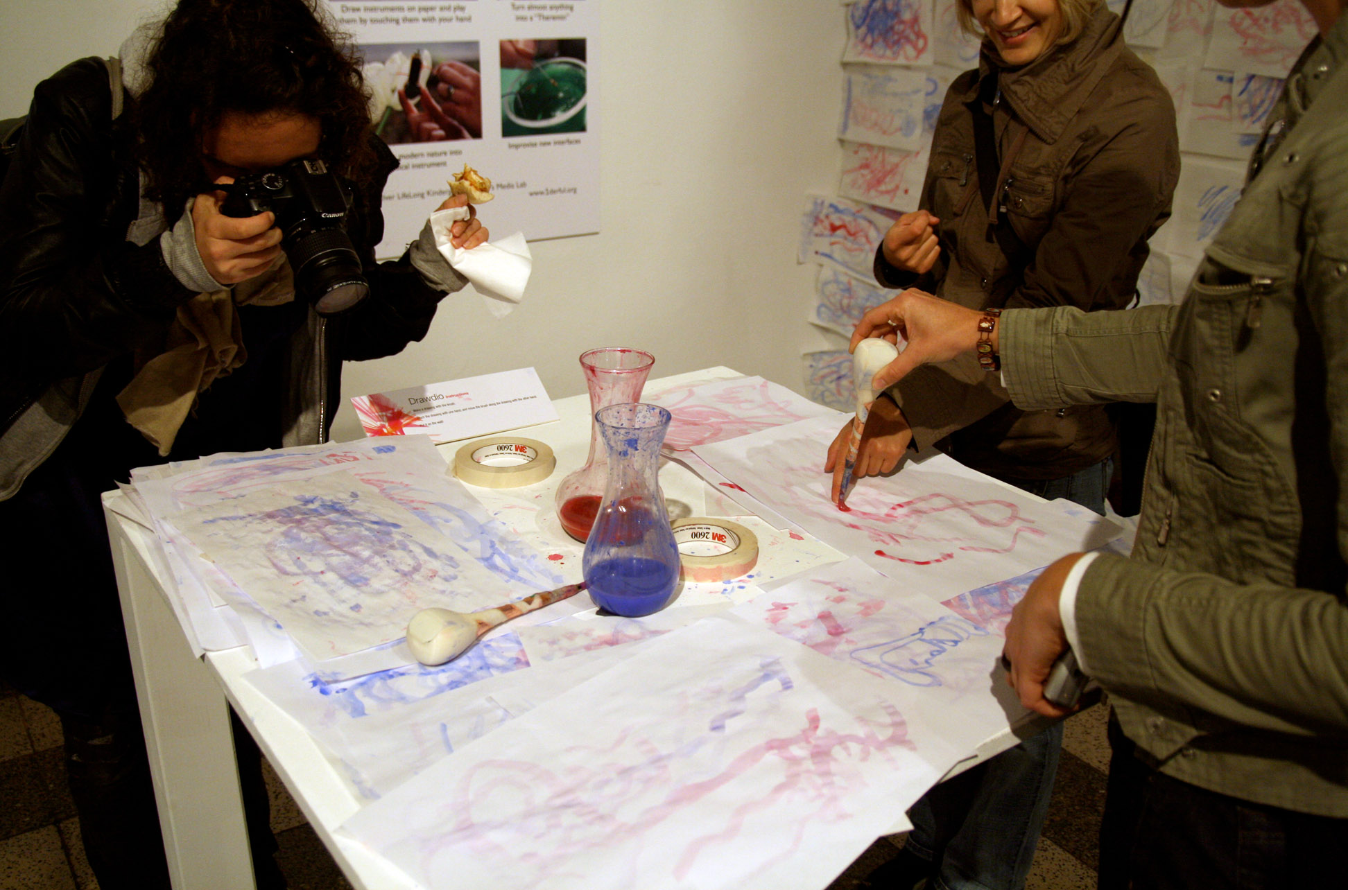 IMPETUS: Exhibition of the MIT Media Lab at the University of Arts and Industrial Design in Linz during the Ars Electronica Festival 2009.